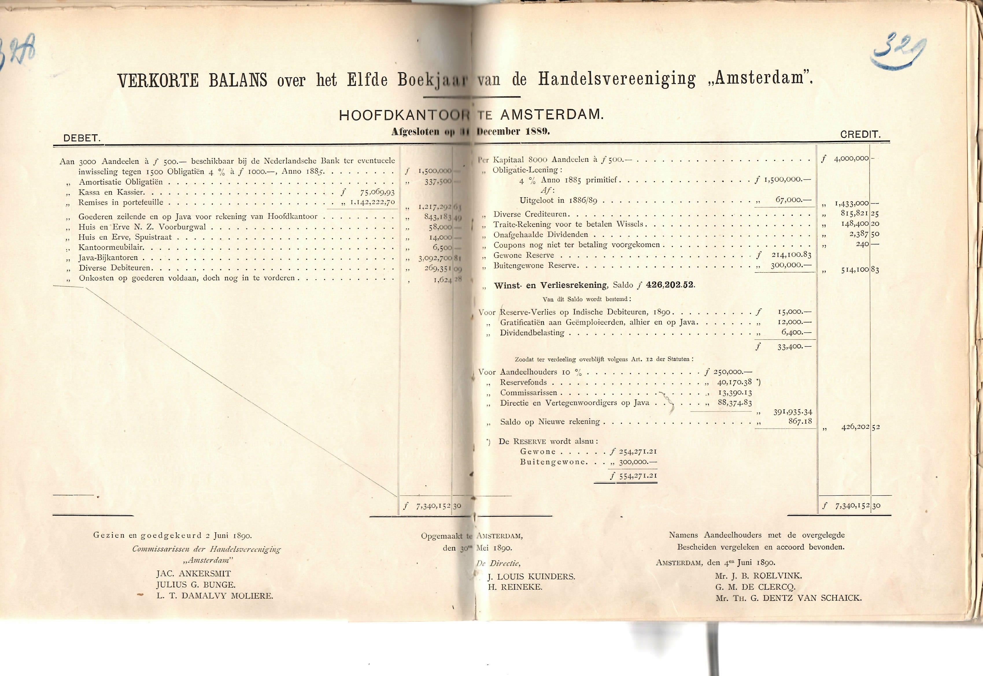 The annual balancesheet of the company HVA International